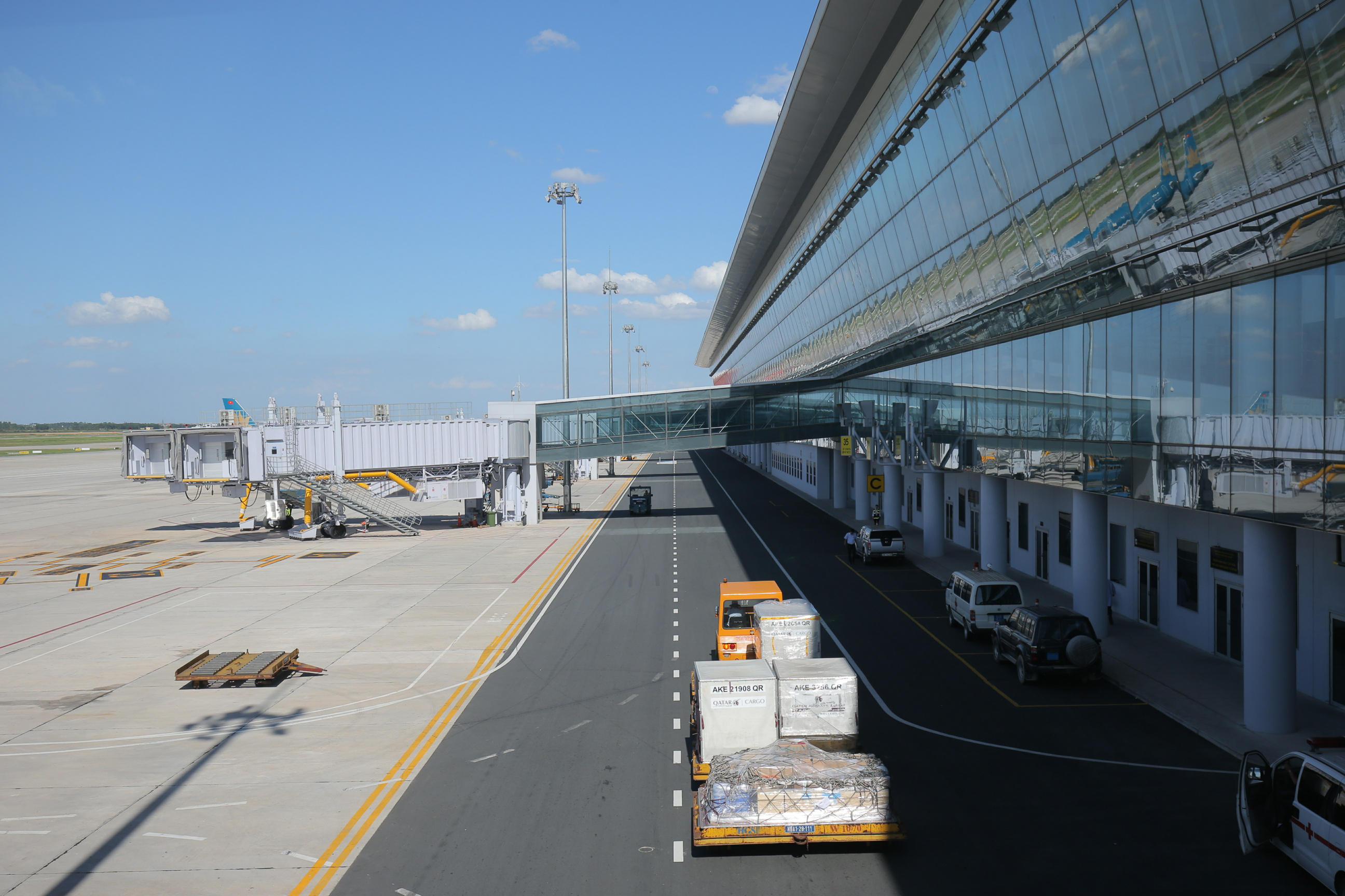 New terminal of Noibai International Airport, Hanoi, Vietnam